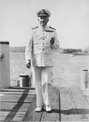 Commodore (later Rear Admiral) G C Muirhead-Gould in May 1941